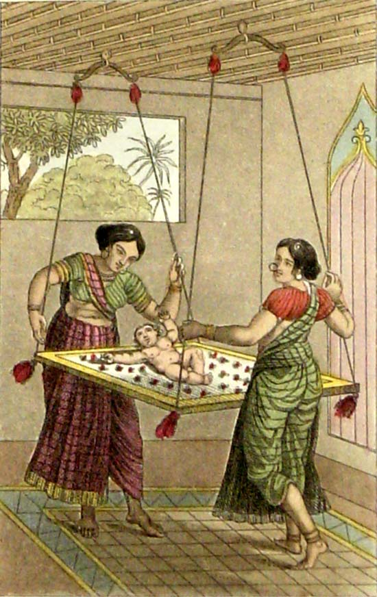 A Hindoo Cradle from 'The World in Miniature: Hindoostan'. London: R. Ackerman, 1820's.